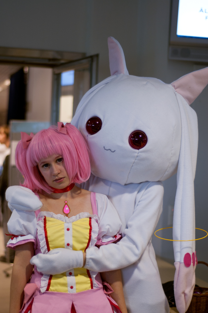 Madoka and Kyuubee